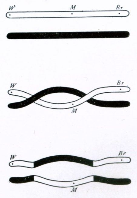 Cropped version of :en:Image:Morgan_crossover_2.png . An illustration of double crossing over, from Thomas Hunt Morgan's A Critique of the Theory of Evolution (1916).